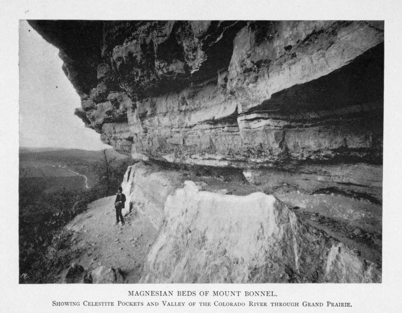 Outcrop at Mount Bonnell, Austin, Texas.